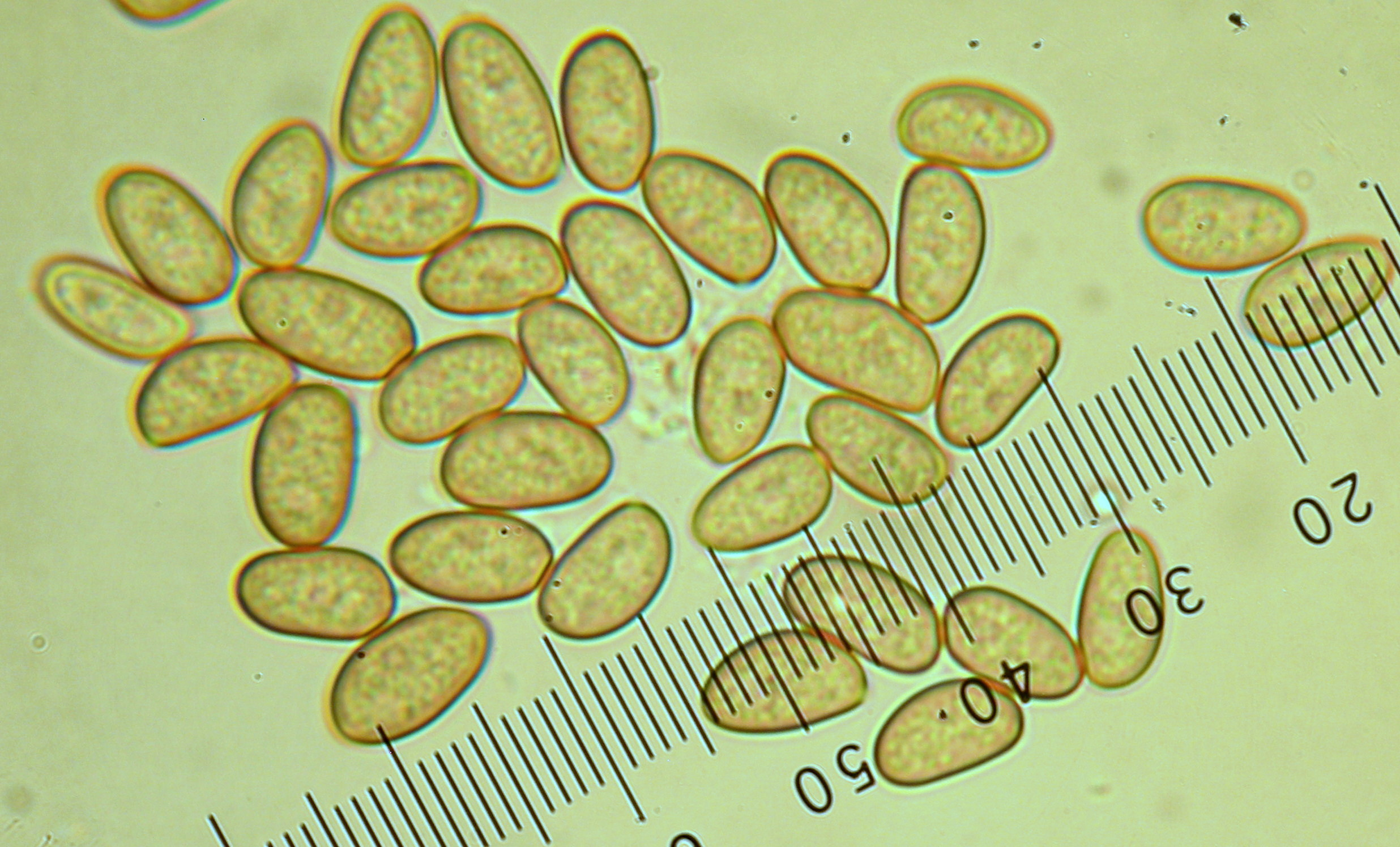 Psathyrella spadicea (Schaeff.) Singer Image location: North-South Road near Capps Crossing Campground, Eldorado National Forest, El Dorado Co., California, USA Found by Carissa Chun. Growing in a cluster at the base of a dying tree @ ~ 5000ft. Spore print brown with slight purplish tint. Spores ~ 7.0-9.1(10.0) X 4.1-5.3 microns, mostly oblong. Gill cystidia fairly abundant, variable, mostly broadly fusoid, with thick walls near apex. A few with apical crystals. There seemed to be also some inflated cells on parts of the gill edge as noted in Smith’s description. (see last photo) Used references: The North American Species of Psathyrella by A. H. Smith Spores in KOH @ 1000X. For more information about this, see the observation page at Mushroom Observer.